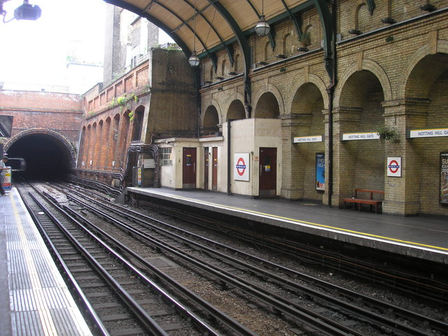 Notting Hill Gate Station The view of the District Line Underground Station at Notting Hill Gate, where the trains from the north/east come into daylight.